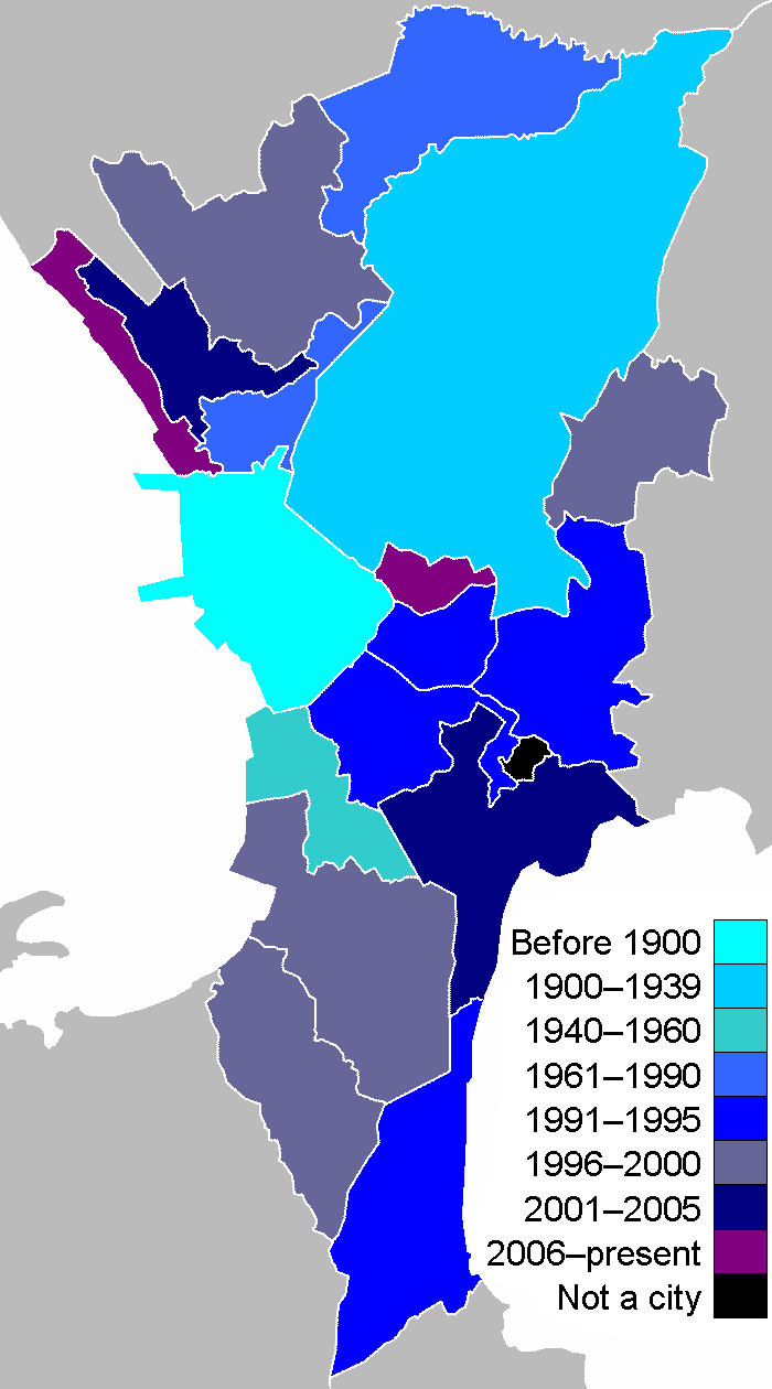 Cities of Metro Manila by years of cityhood. Pateros is the only remaining municipality.